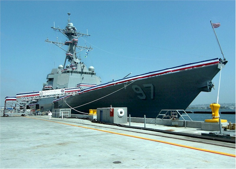 San Diego July 29 2005, the Arleigh Burke-class guided missile destroyer USS Halsey (DDG 97) moored at Naval Air Station (NAS) North Island, Calif., the day prior to being commissioned as the U.S. Navy's newest ship. Halsey will be capable of fighting air, surface, and subsurface battles simultaneously.